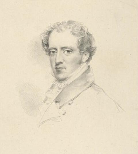 A portrait from the Welsh Portrait Collection at the National Library of Wales. Depicted person: Sir Robert Price, 2nd Baronet – British politician